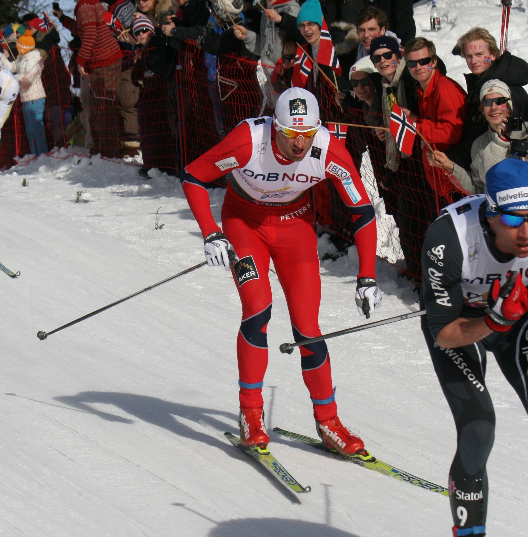 FIS Nordic World Ski Championships 2011 in Oslo. Petter Northug (gold winner) at men's 50 km. In front Curdin Perl from Switzerland.